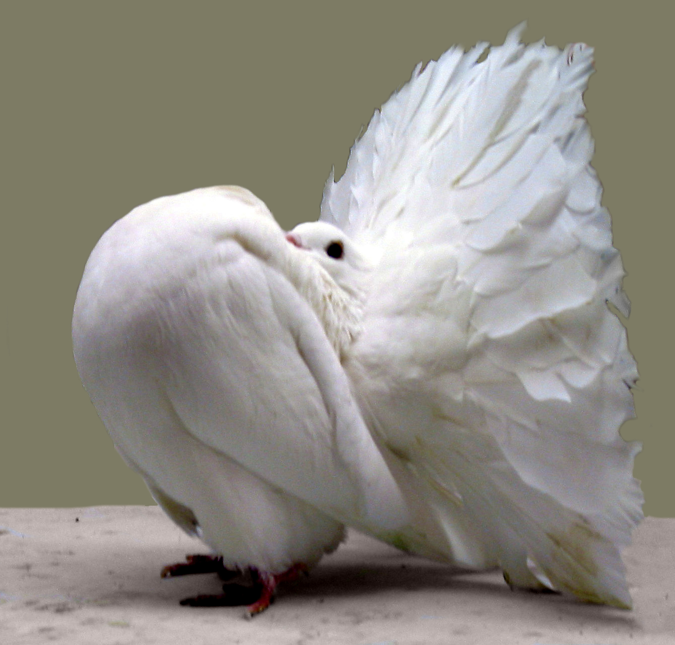 Fantail (White Self)